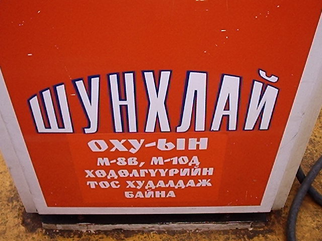 Mongol Cyrillic inscription on the fuel station